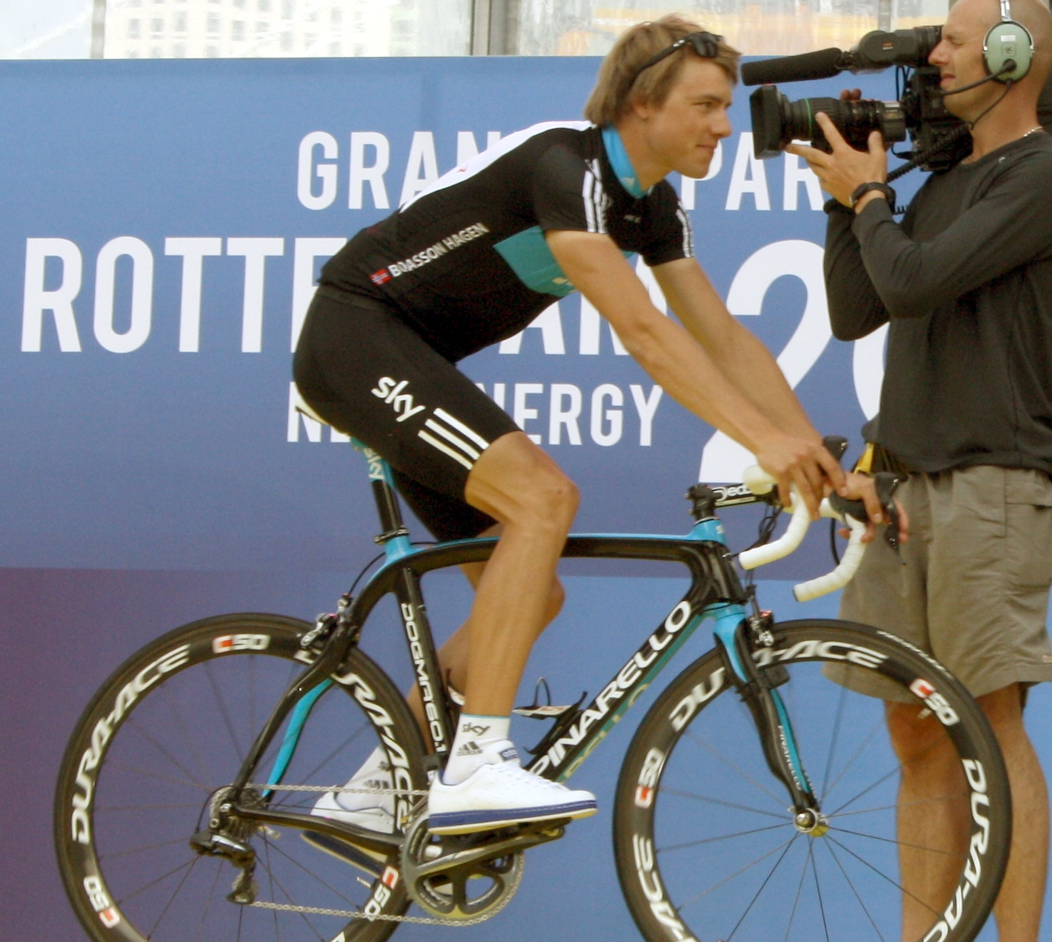 Edvald Boasson Hagen at the team presentation of the 2010 Tour de France in Rotterdam